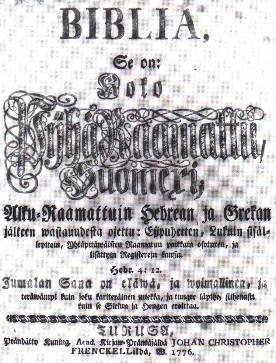 Finnish Biblia, 1776.